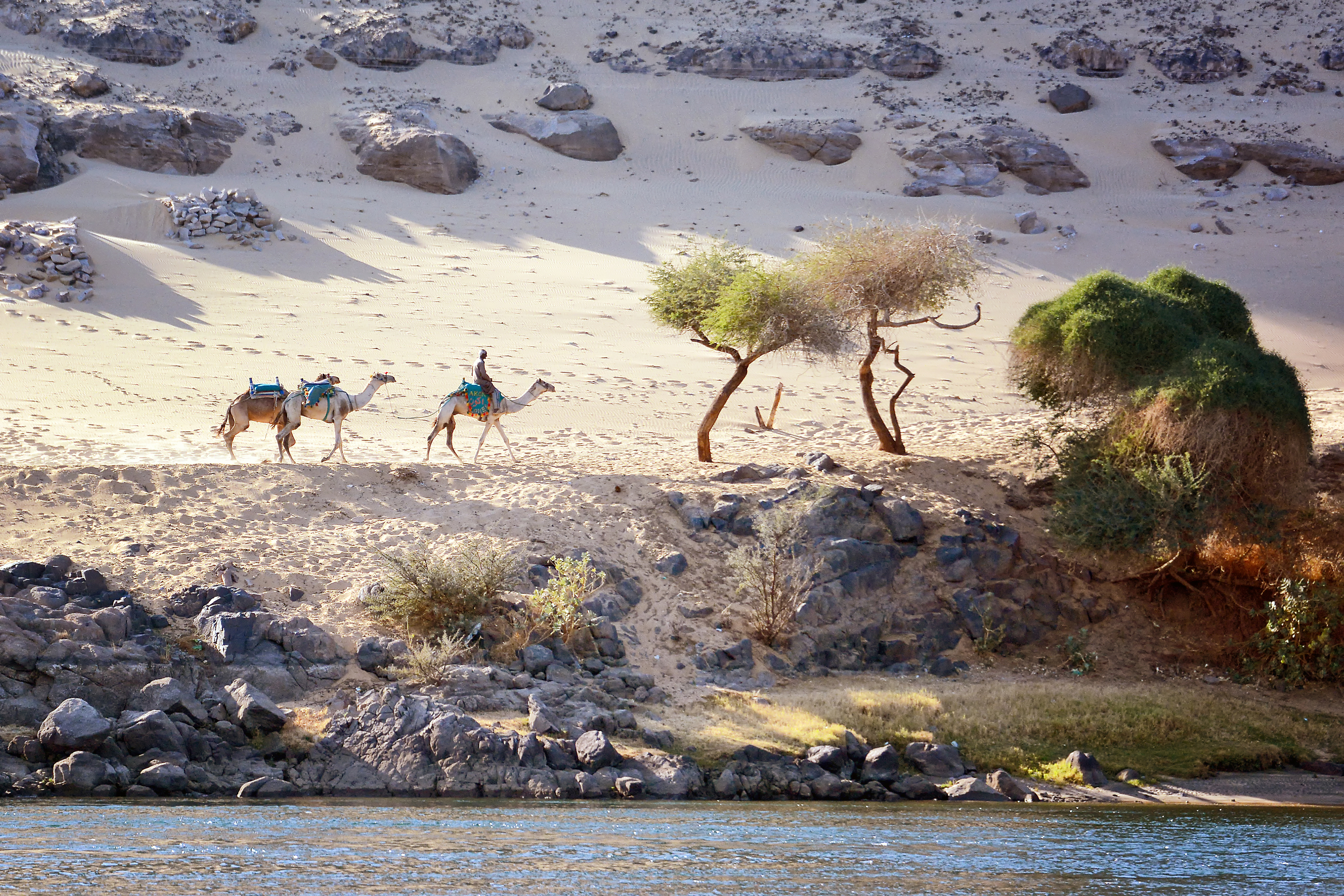 Camels journey in Nubia - Egypt This is an image with the theme "Africa on the Move or Transport" from: Egypt